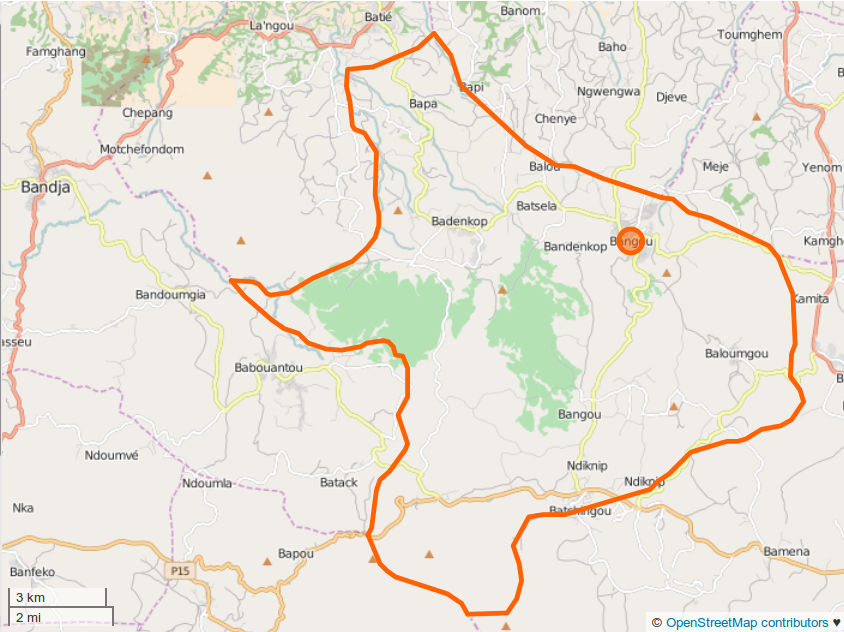 OSM map of Bangou, Cameroon ː commune boundaries. This map may be incomplete, and may contain errors. Don't rely solely on it for navigation.